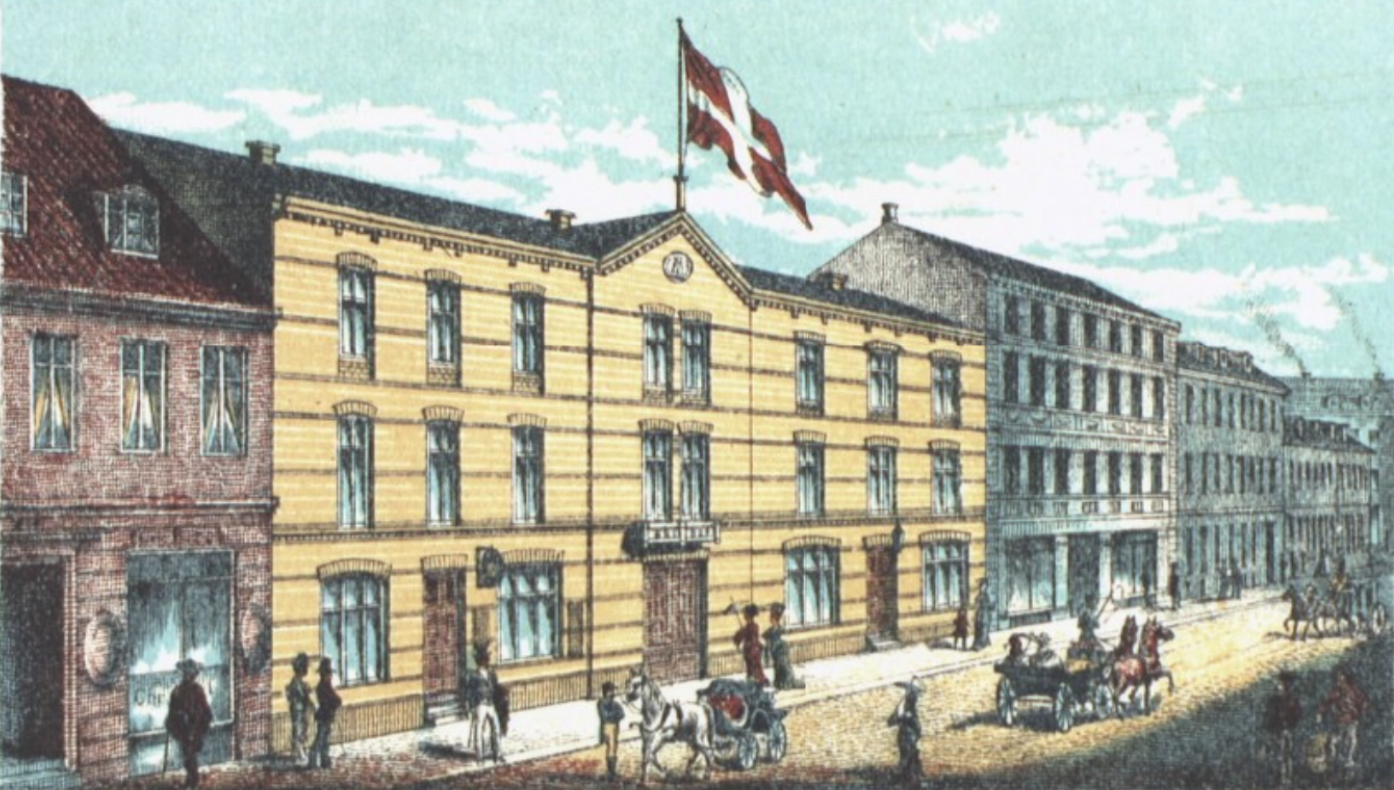 Sparekassen Bikuben's former headquarters in Silkegade in Cpåenhagen, Denmark.